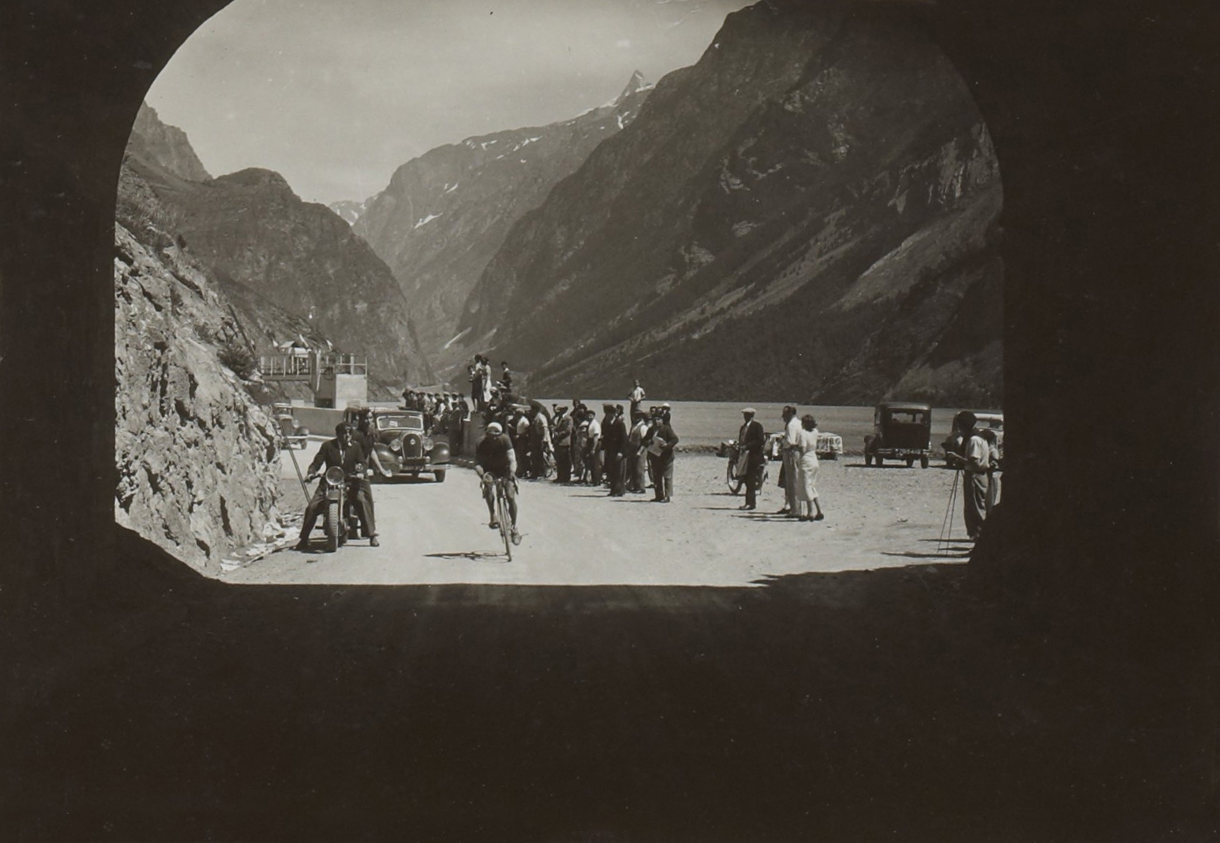 Tour de France 1936